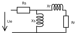 Equivalent circuit diagram for induction motors. Source drawn from author with editor diag and converted to png.